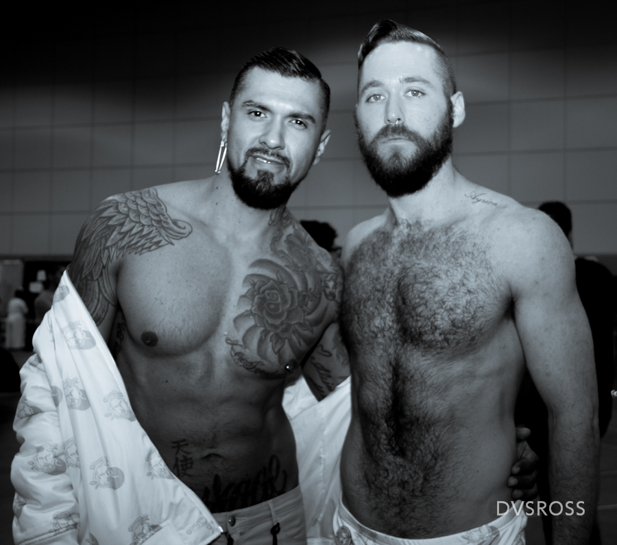 Boomer Banks and Ziggy Banks at RuPauls Dragcon 2018